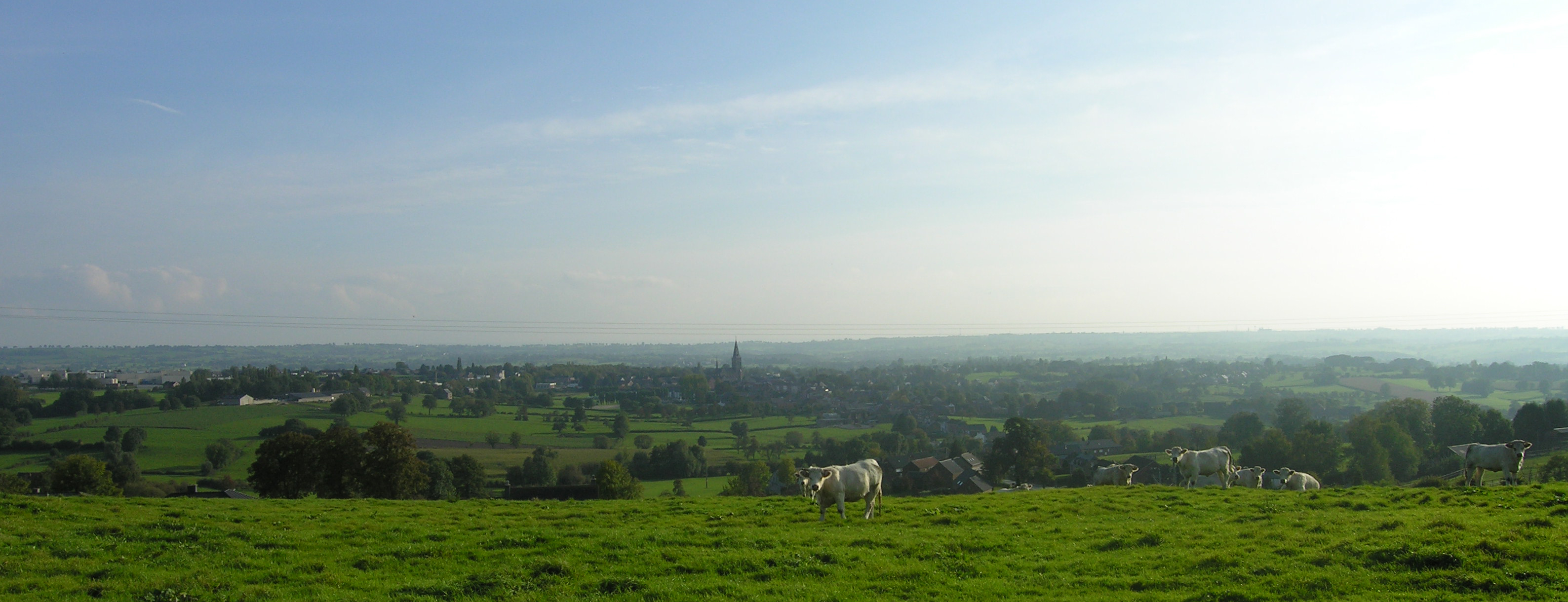 Aubel (Belgium): Panorama from the road N608 Lobos